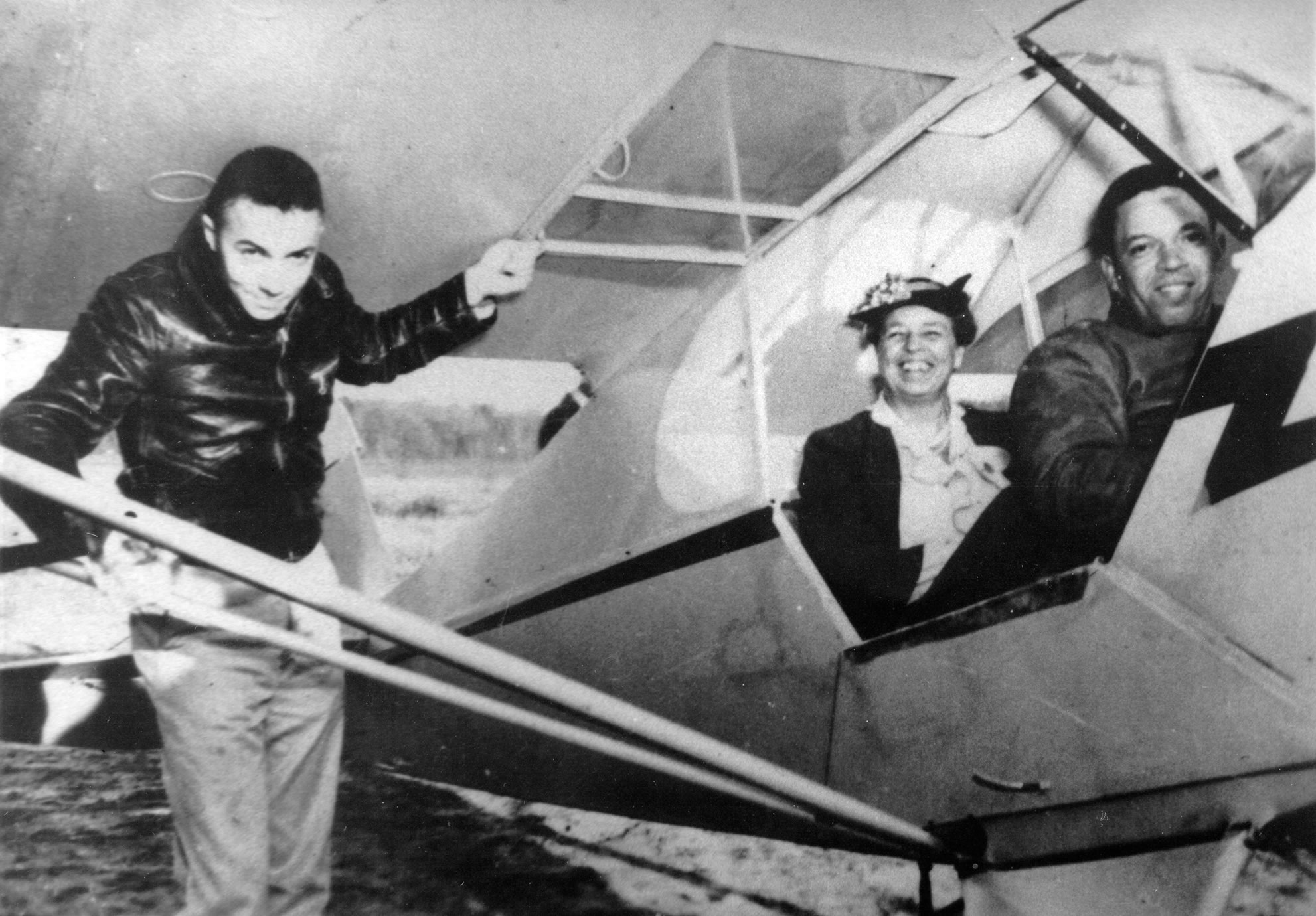 First Lady Eleanor Roosevelt, center, is shown in a digital image of a photo taken with U.S. Army Air Corps Tuskegee Airman pilot C. Alfred Anderson in March 1941.